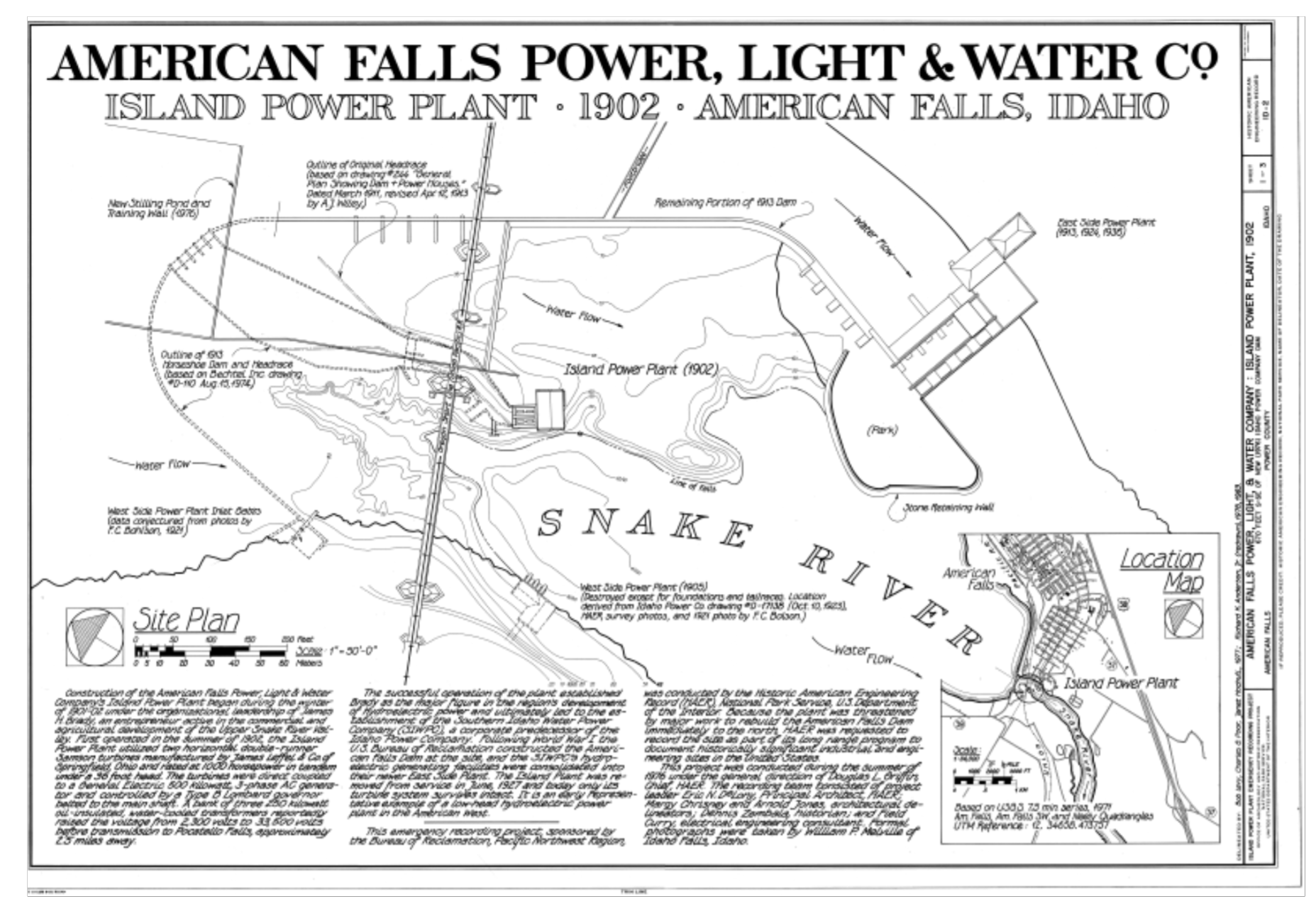 Historic American Engineering Record (HAER) Plans for the first Hydroelectric Plant (1902) at American Falls on the Snake River American Falls